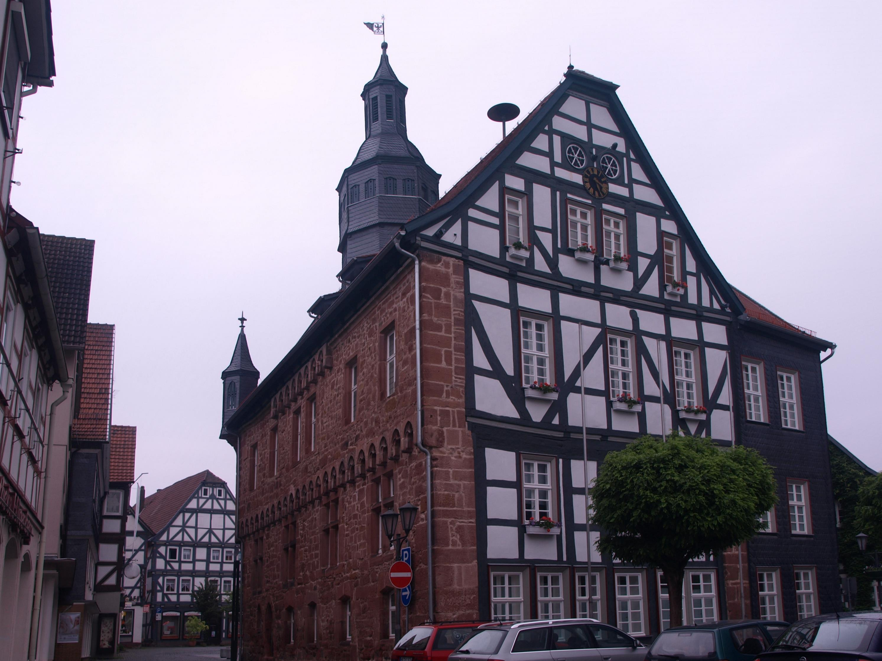 south-eastern view of town hall in Treysa